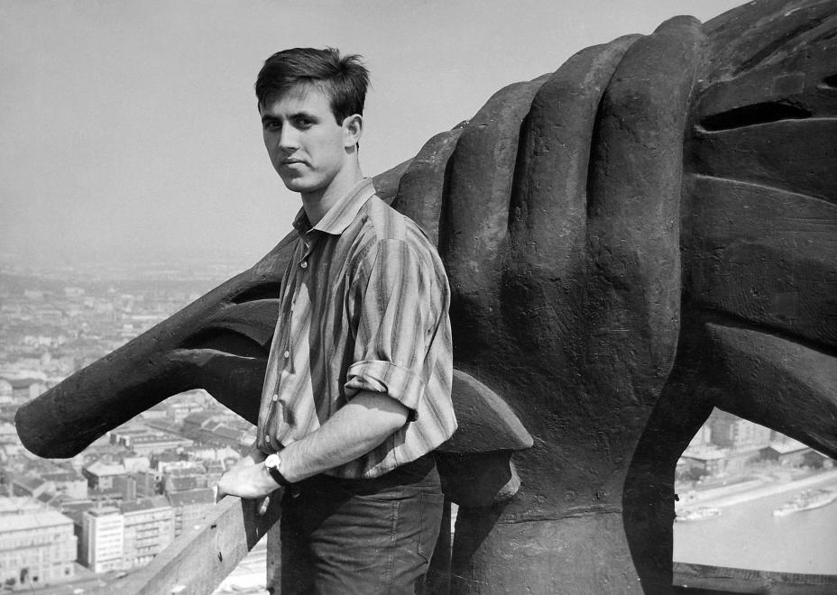 Budapest, Gellért Hill, Detail of the Liberty Statue, with Danube embankment. Unidentified male person in the foregound. Location: Hungary, Budapest XI. Tags: palm branch, Budapest, liberty, monument, statue Title: a Szabadság szobor részlete, háttérben a Belgrád rakpart.